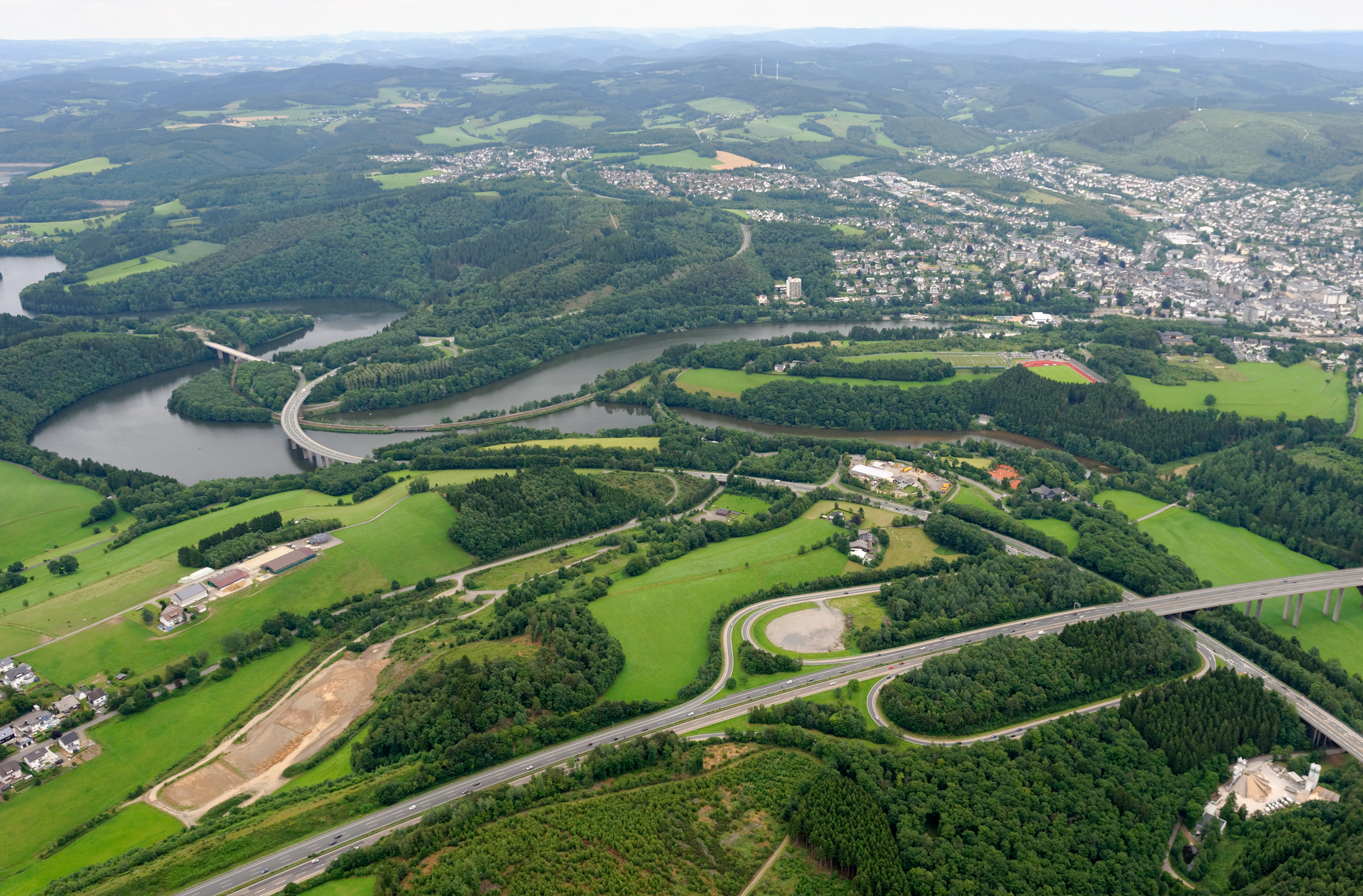 The making of this document was supported by the Community-Budget of Wikimedia Germany. Autobahn 45 mit Anschlussstelle Olpe, dahinter Biggesee, rechts Olpe